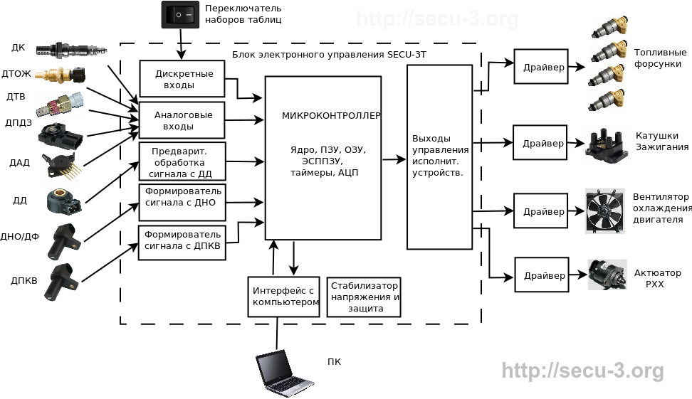 Структурная схема блока SECU-3T